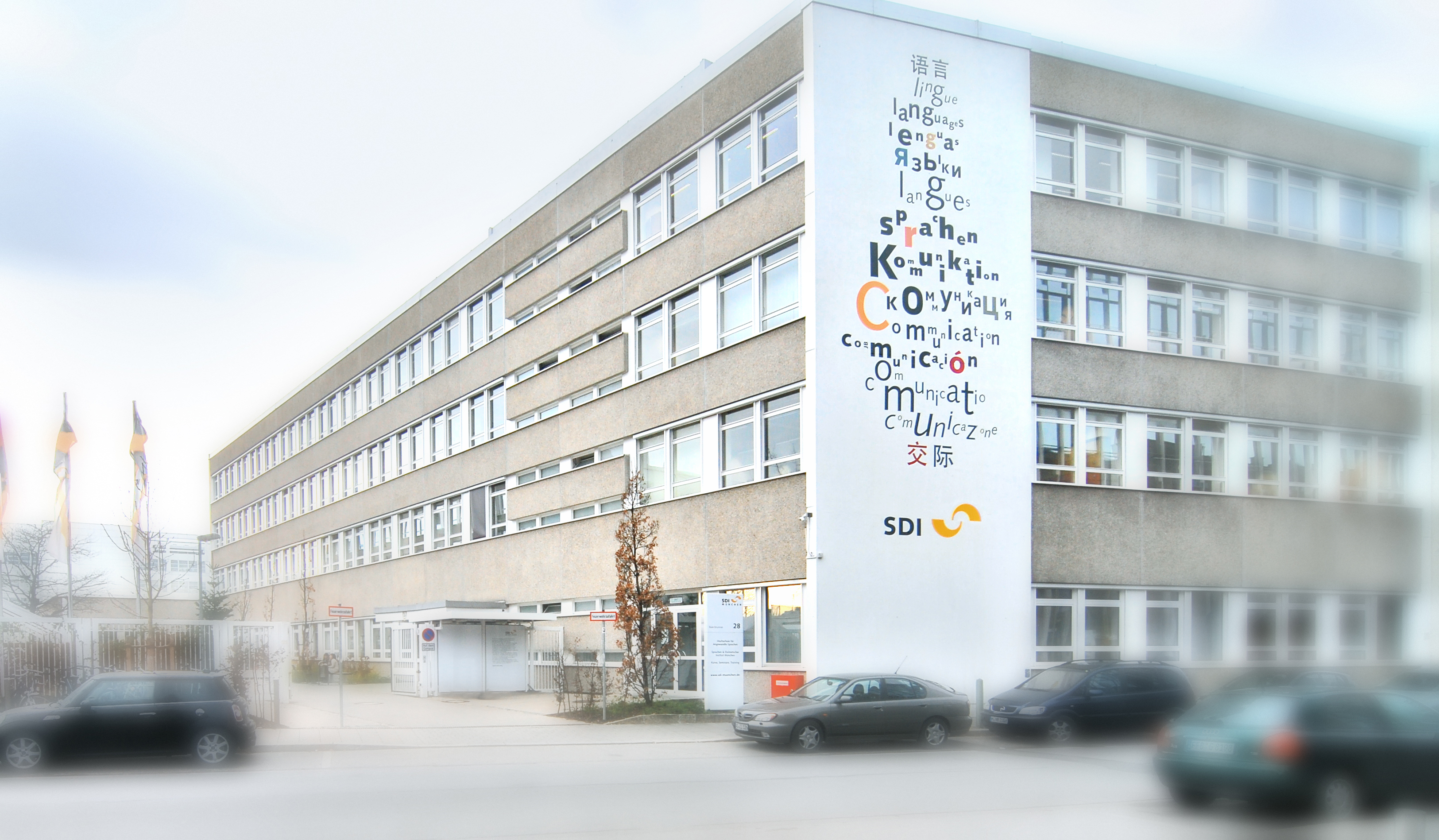 SDI Munich